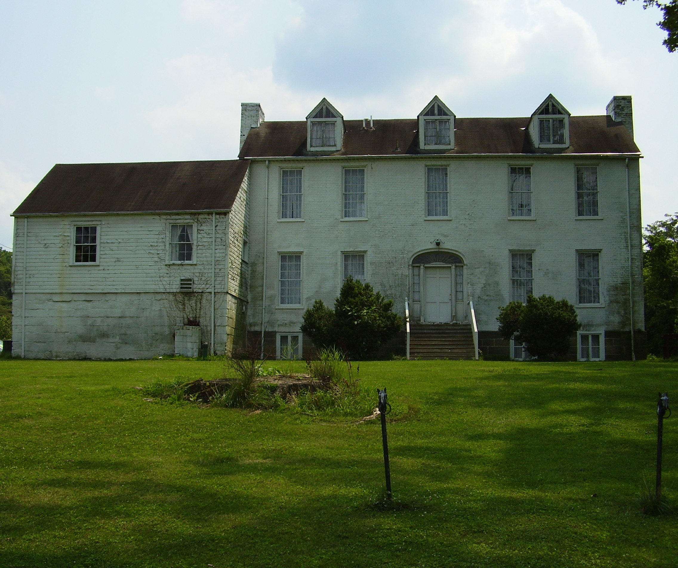 Self-made photo of the main house at Green Bottom, the home of of CSA General Albert G. Jenkins, located along the Ohio River near Huntington, West Virginia. The photo was taken on 8 July 2006.